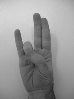 Korean manual alphabet yae